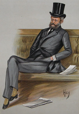 Caricature of Ferdinand James von Rothschild. Caption read "Ferdy".